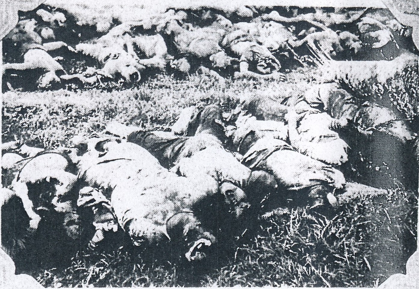 Massacred corpses of Japanese victims of the Tungchow Massacre